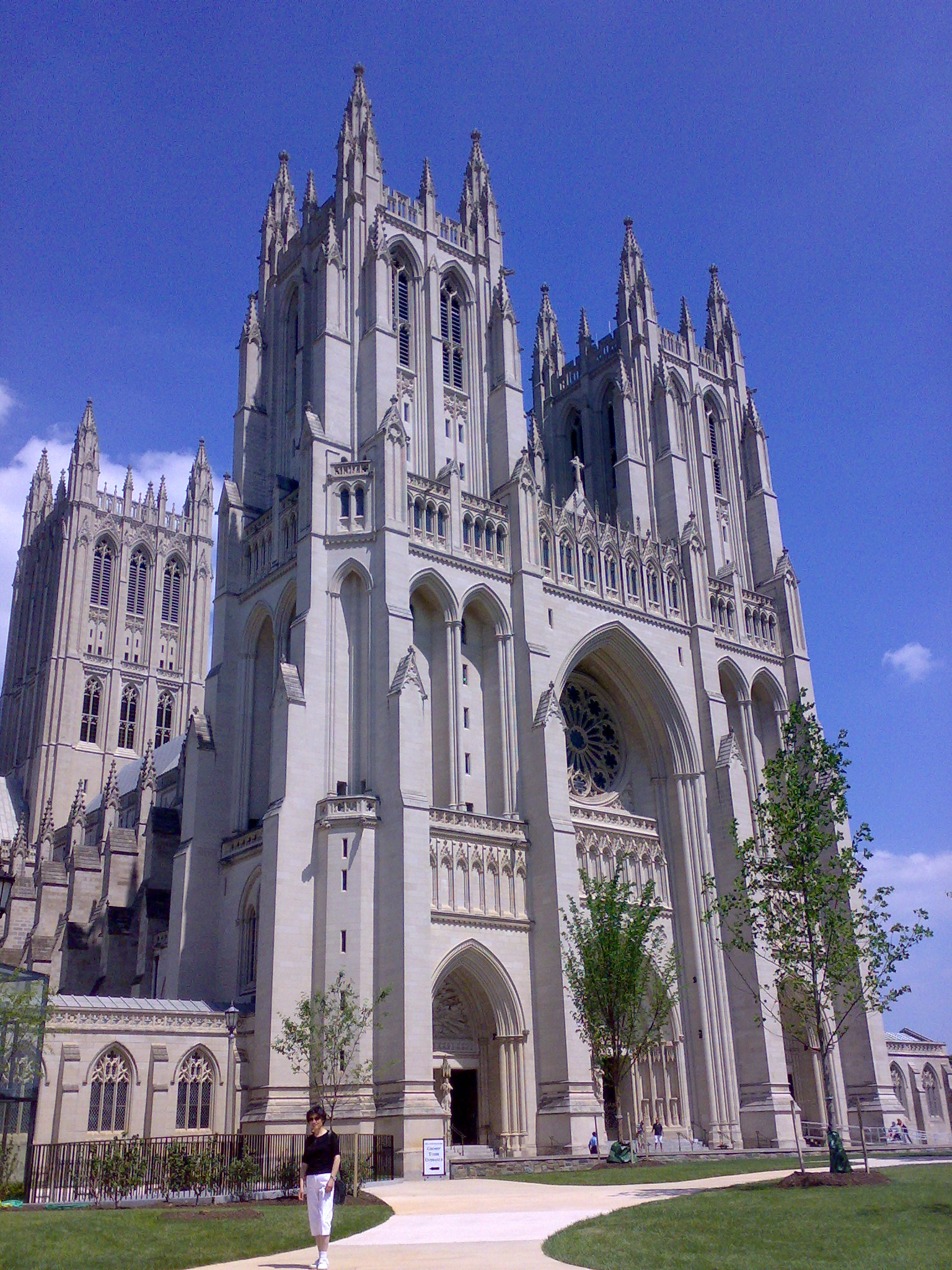 National Cathedral, Washington, DC